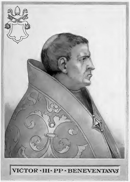 This illustration is from The Lives and Times of the Popes by Chevalier Artaud de Montor, New York: The Catholic Publication Society of America, 1911. It was originally published in 1842.